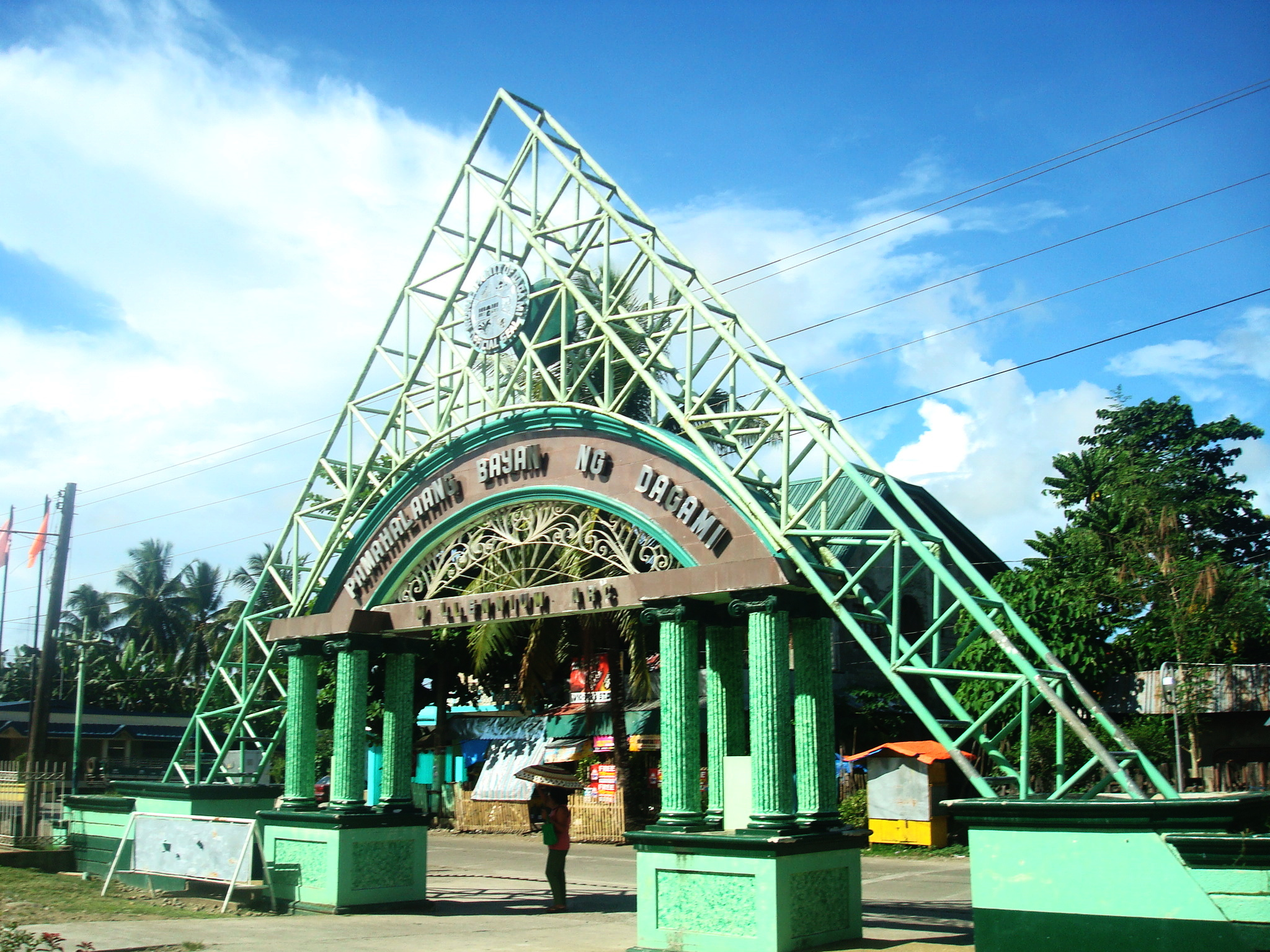 The Millennium Arch of Dagami